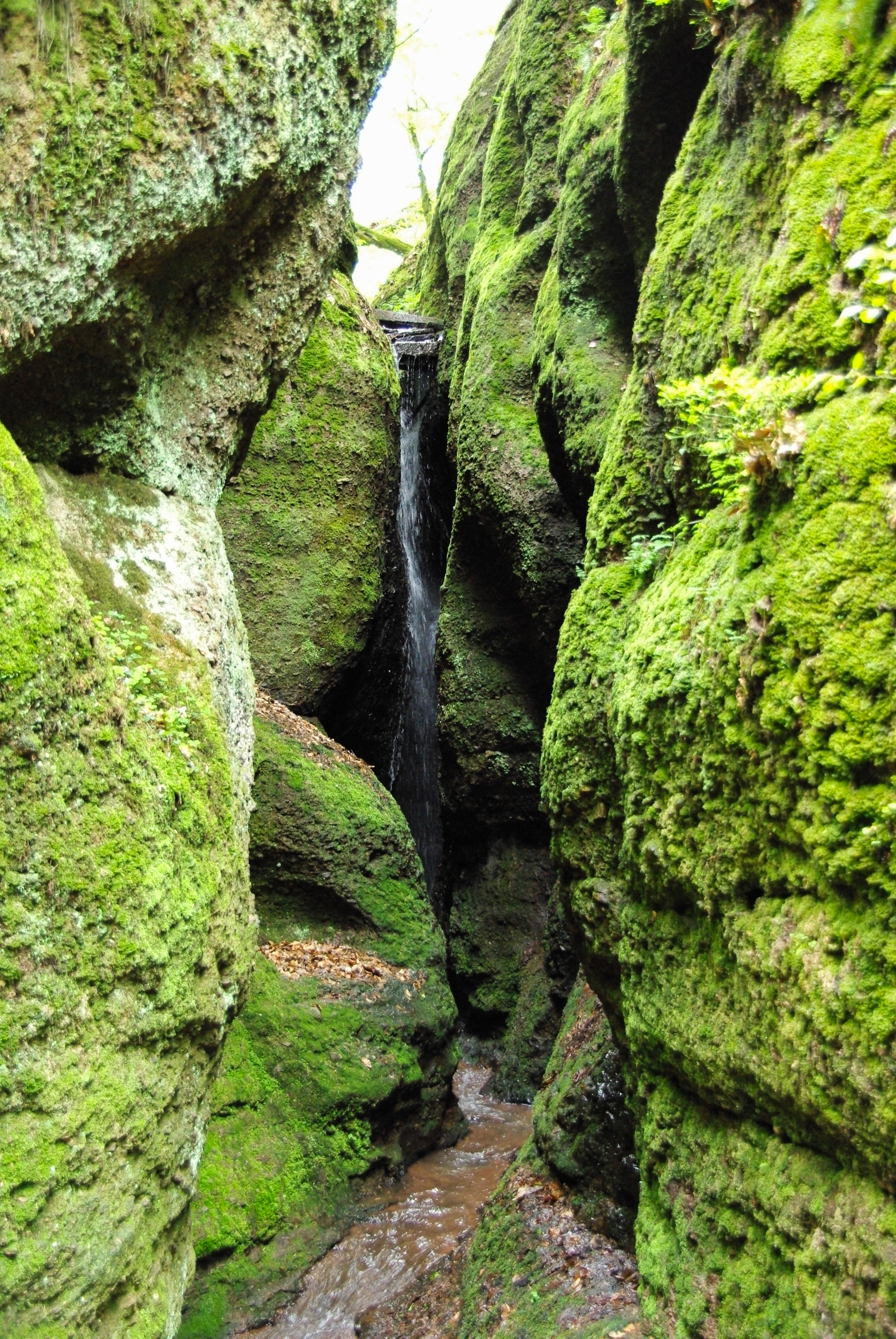 little waterfall in the "Drachenschlucht" (dragons canyon) in Eisenach, Thuringia, Germany